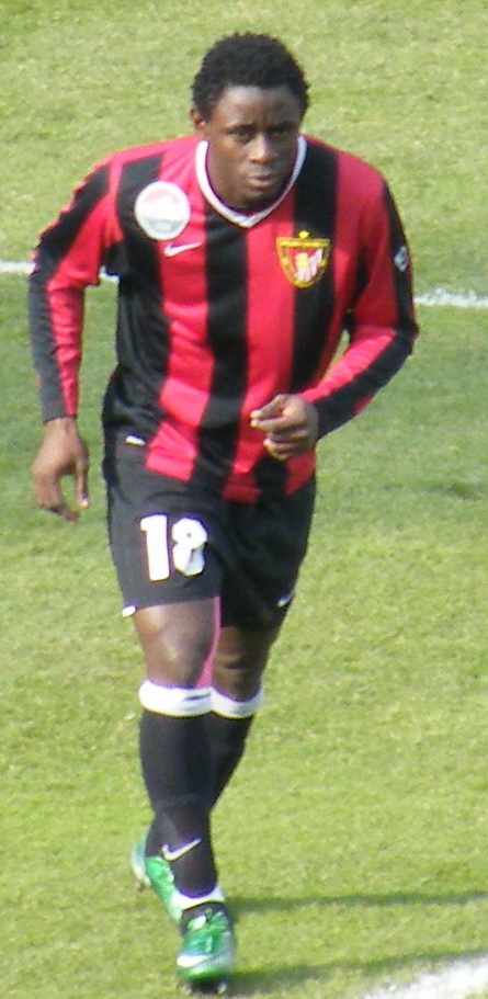 Abraham Ivorian football player